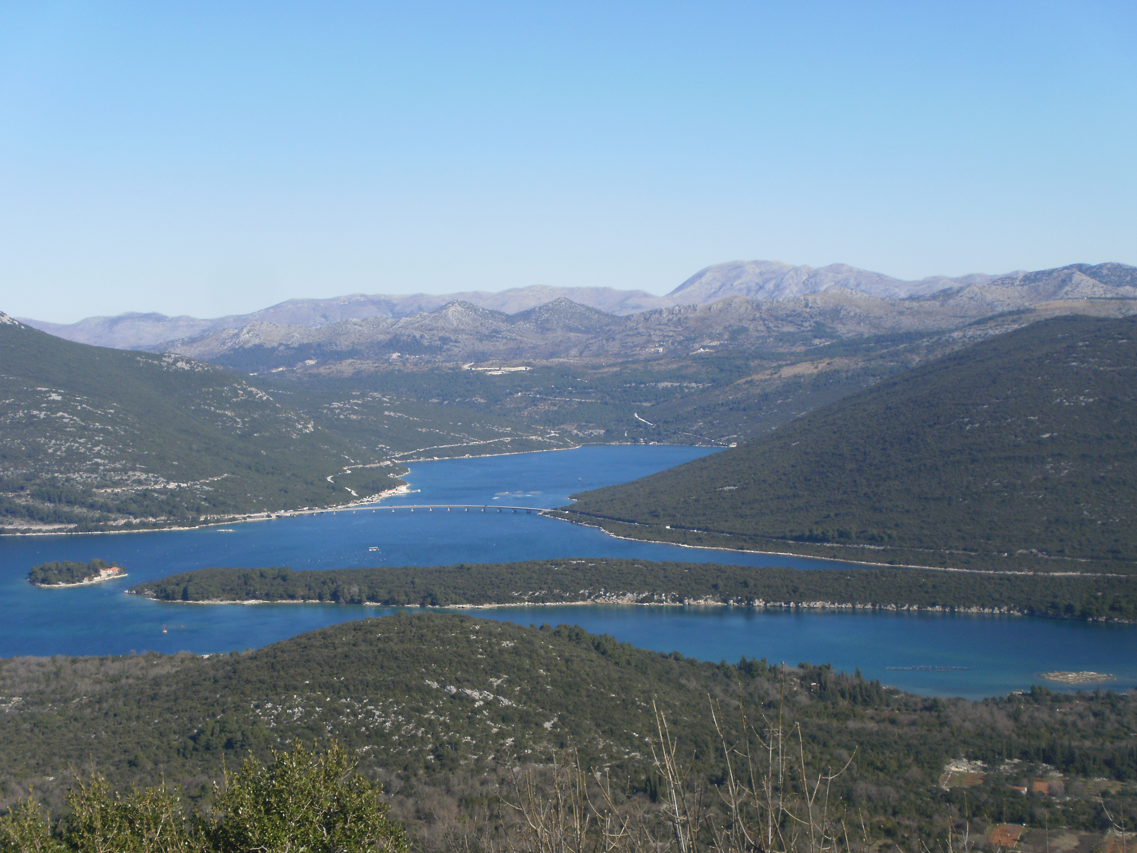 Islet "Otok Života", Bistrina bay and Bistrina bridge OLYMPUS DIGITAL CAMERA